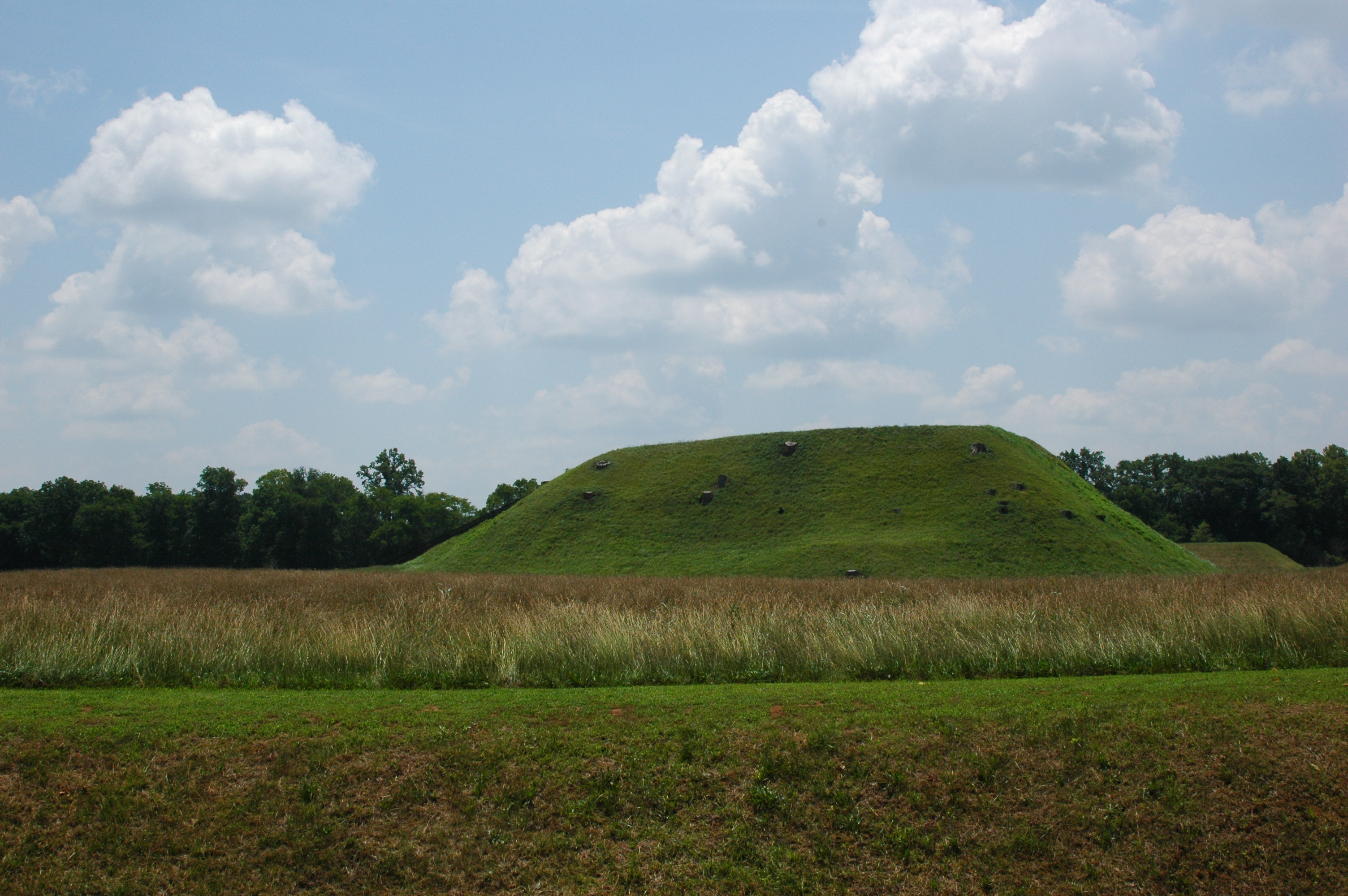 Mound A at the Etowah Indian Mound site as seen from Indian Mound Rd. outside of the grounds' fence.